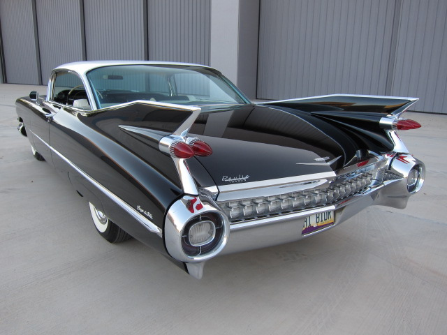 This is a picture of a 1959 Cadillac Coupe Deville.